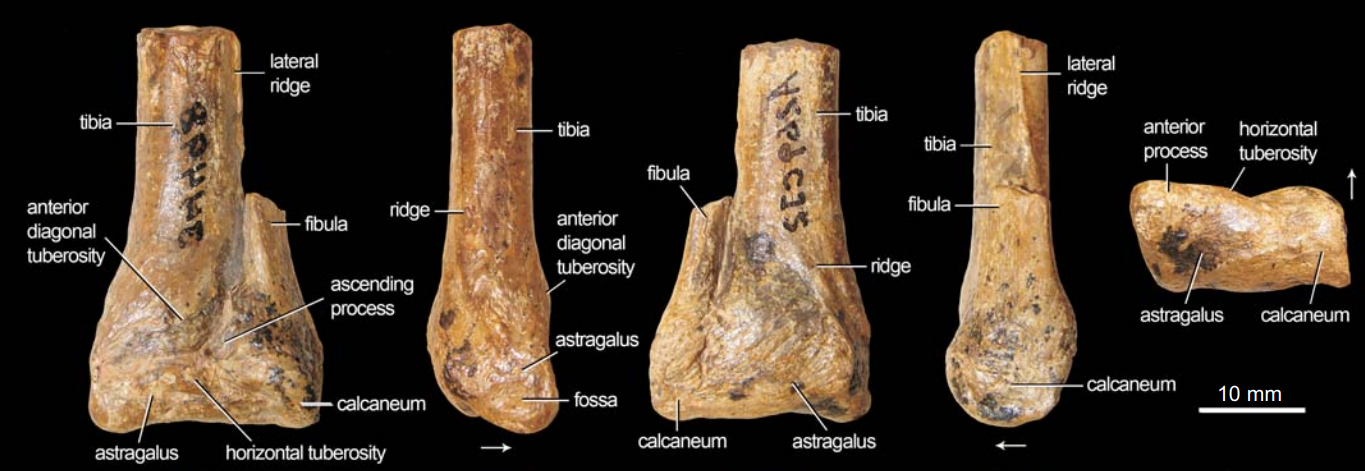 The ankle of Camposaurus arizonensis (UCMP 34998, reversed). The fossils is shown anterior, medial, posterior, lateral, and ventral views, from left to right. The arrow indicates anterior direction.